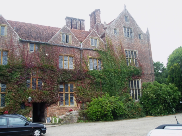 Bolebrook Castle. Reputedly the earliest brick building in Sussex (around 1480) and legend has it that Henry VIII came here to hunt the deer,wild boar and woo Ann Boleyn who lived 5 miles away at Hever.